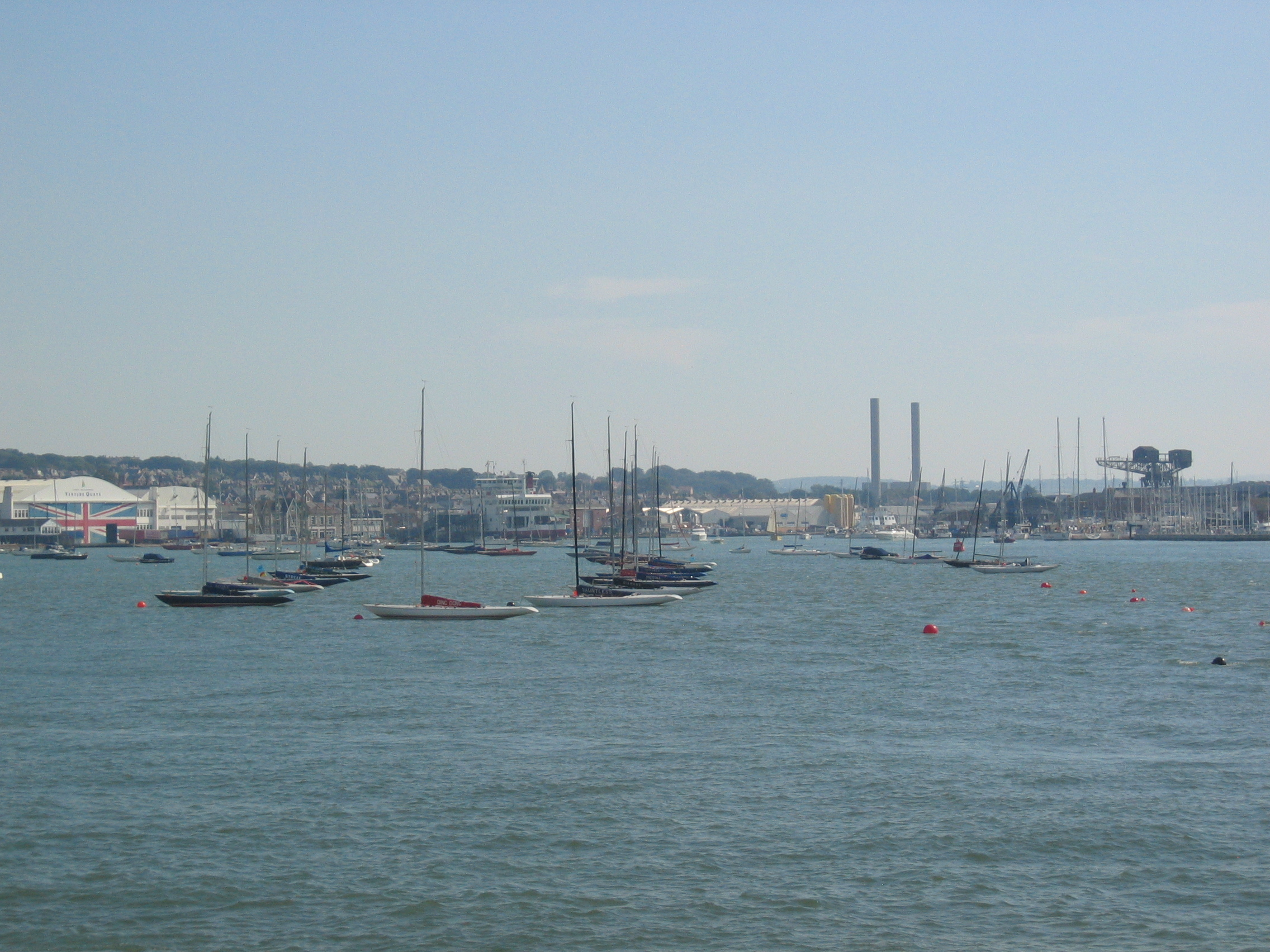 A view of the mouth of the River Medina on the Isle of Wight, seen from The Solent. The town of East Cowes is on the left, Cowes on the right.